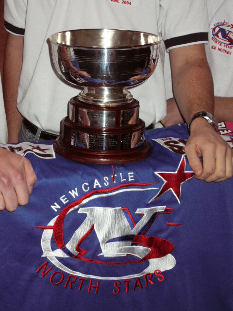 The Goodall Cup, Australia's greatest ice hockey prize, contested since 1910. The Cup is resting on a Newcastle North Stars jersey in 2004 prior to the AIHL & Goodall Cup finals in Sept 2004.